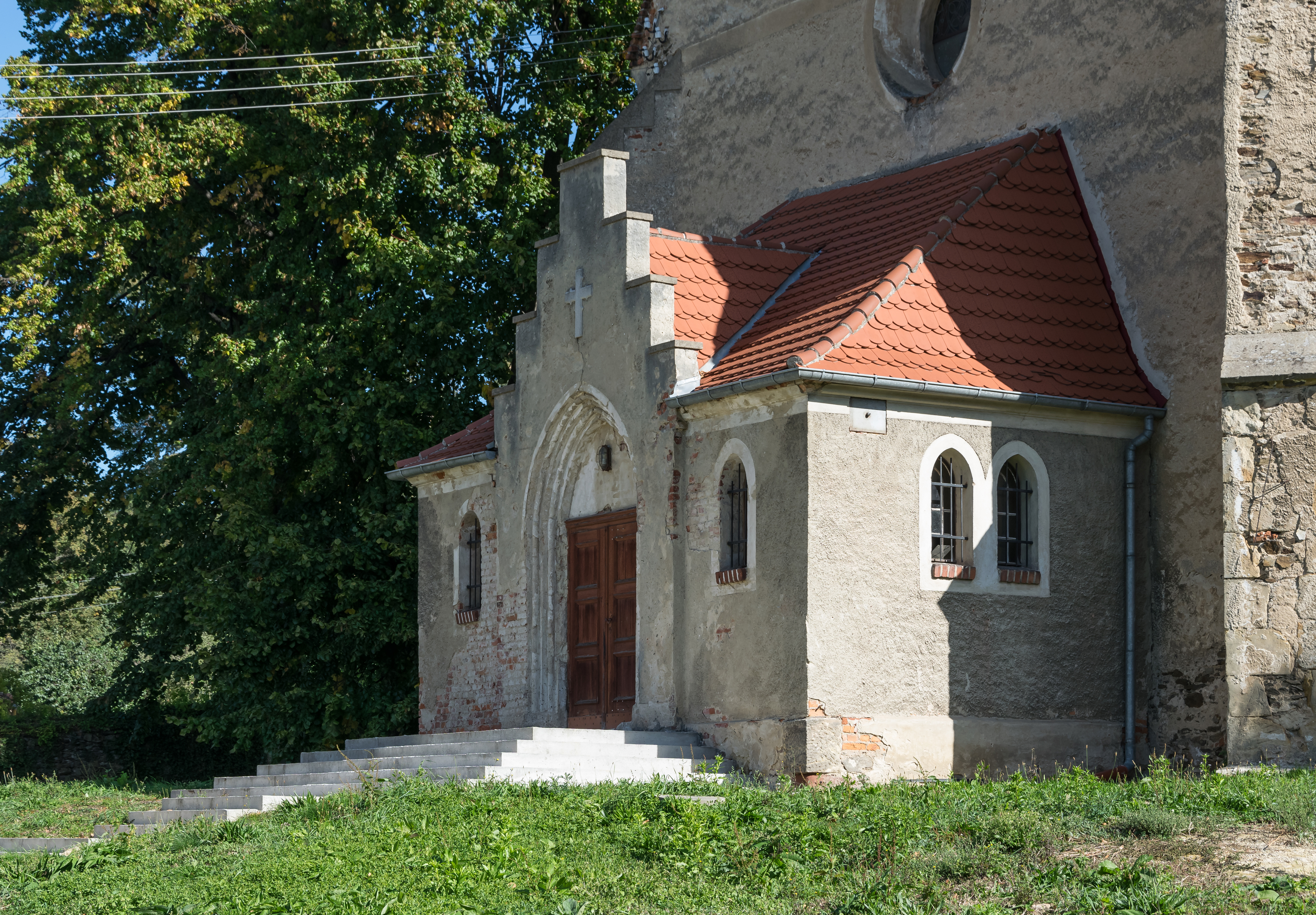 Immaculate Conception and Saint Susanna church in Stolec